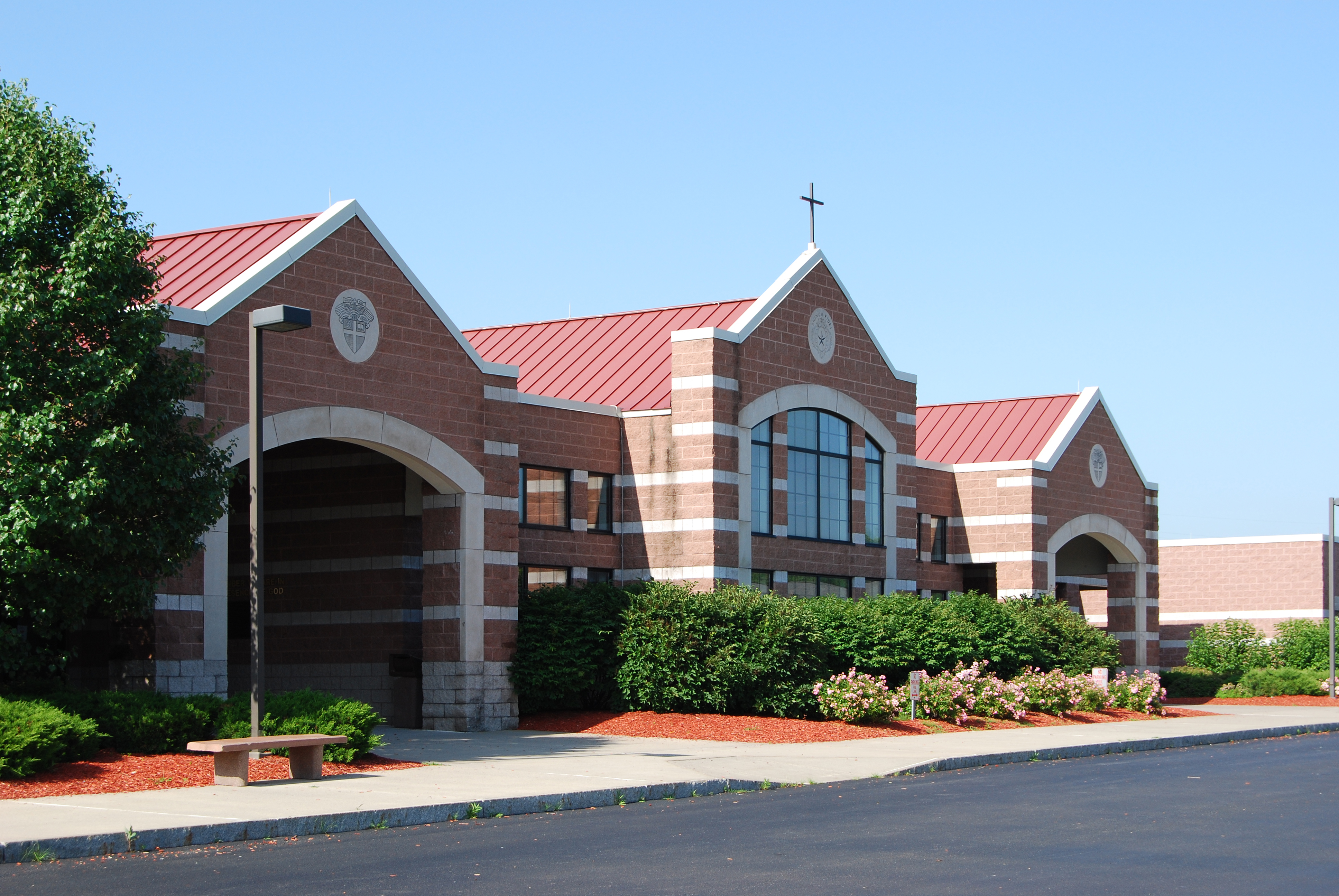 Christian Brothers Academy in Colonie, New York, United States